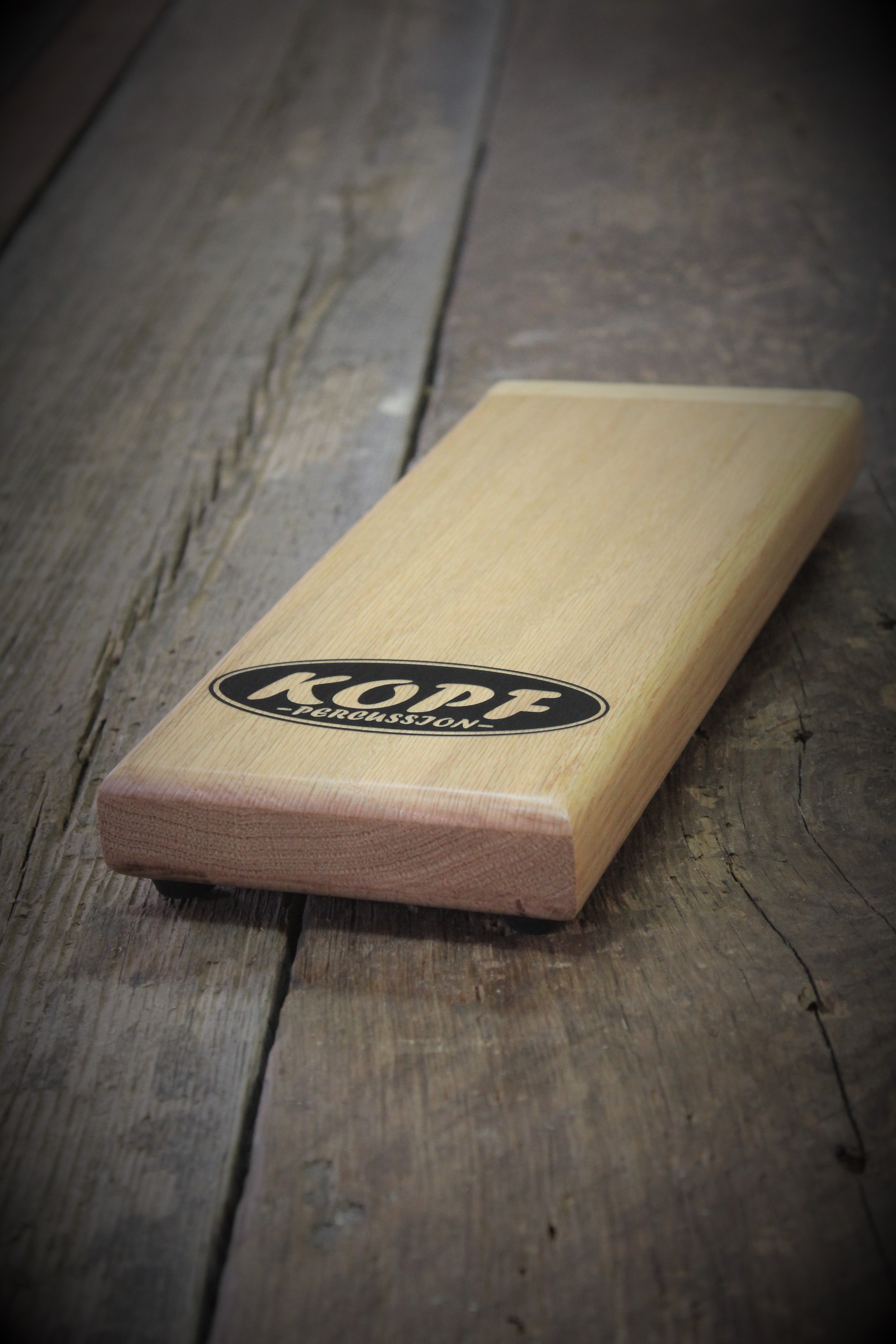 Kopf Percussion Acoustic Stompbox is handcrafted in the USA.